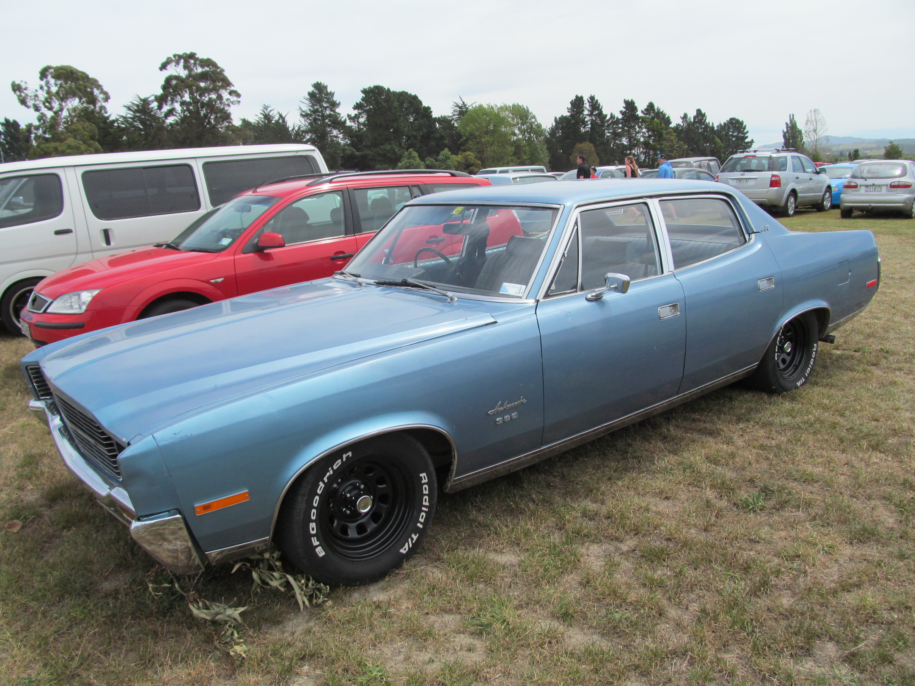 Amazingly, this is not the first Ambassador I have seen - the other one was festering away in someone's front yard, but it has now been removed. Anyway, this one is RHD and a NZ new car, which leads me to wonder if it was a special order. It's a shame it's lost its original wheels really.